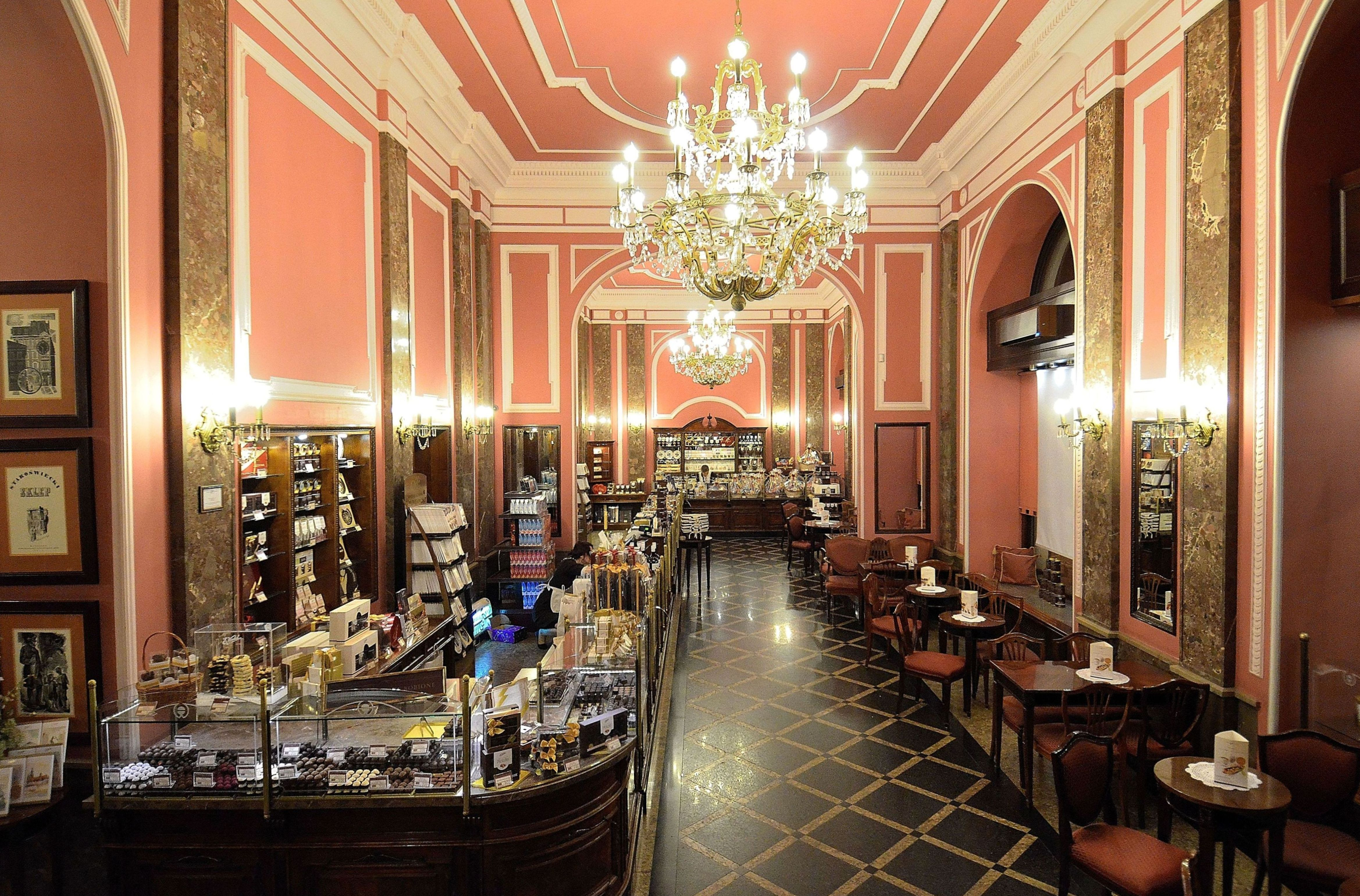 The interior of the original Wedel shop at 8 Szpitalna Street in Warsaw (listed in the Register of Historic Monuments on 1.07.1965, reference no. 739)